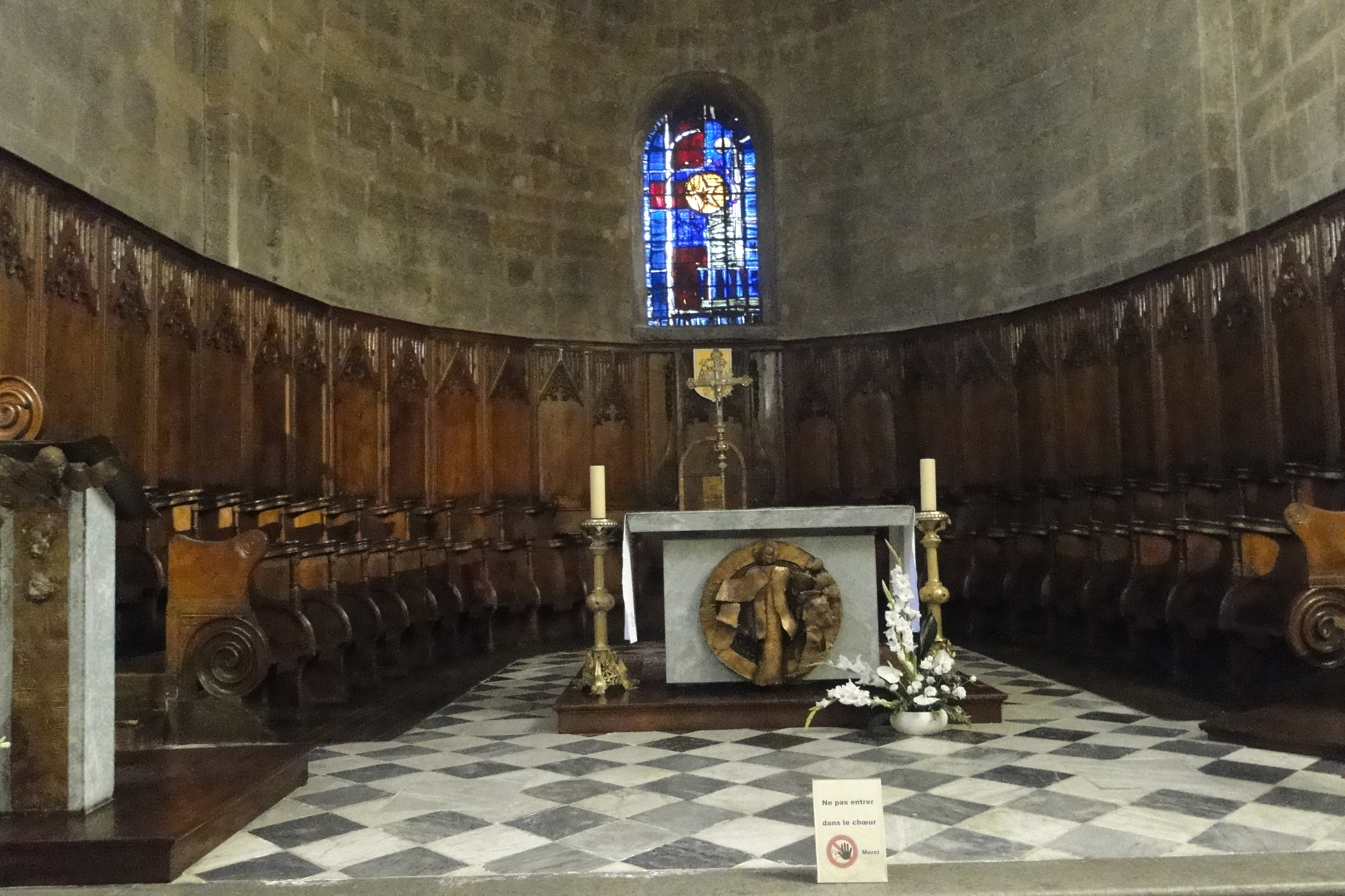 Cathedral of Fréjus - Choir